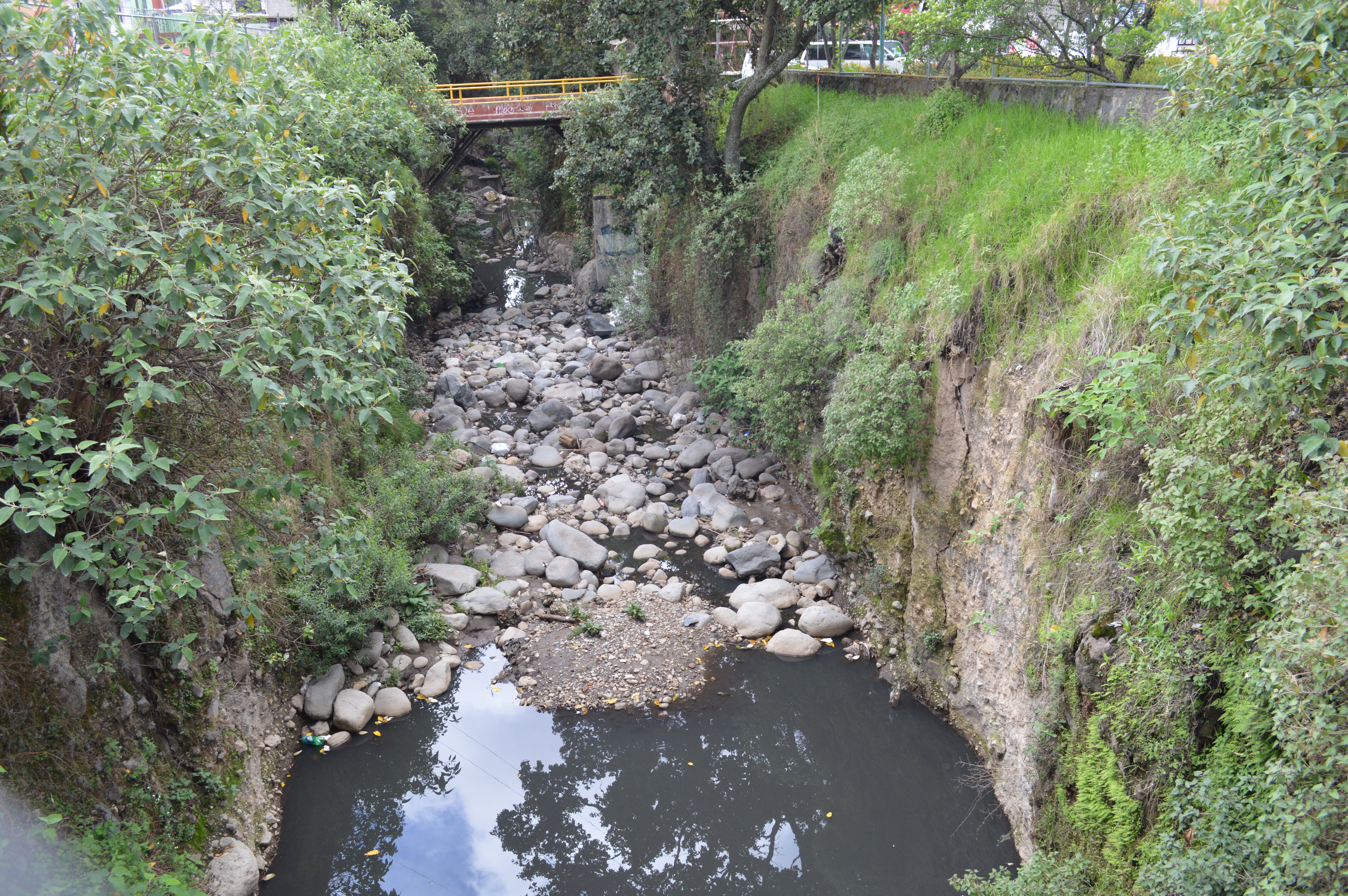 Río Magdalena in Contreras, Mexico City